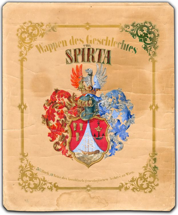 Vienna, 1856 - The Charter issued by the Emperor France Josef I to Pavle Georgie Spirta by which he was given a nobility title Catalog number: ZDUP, K-1